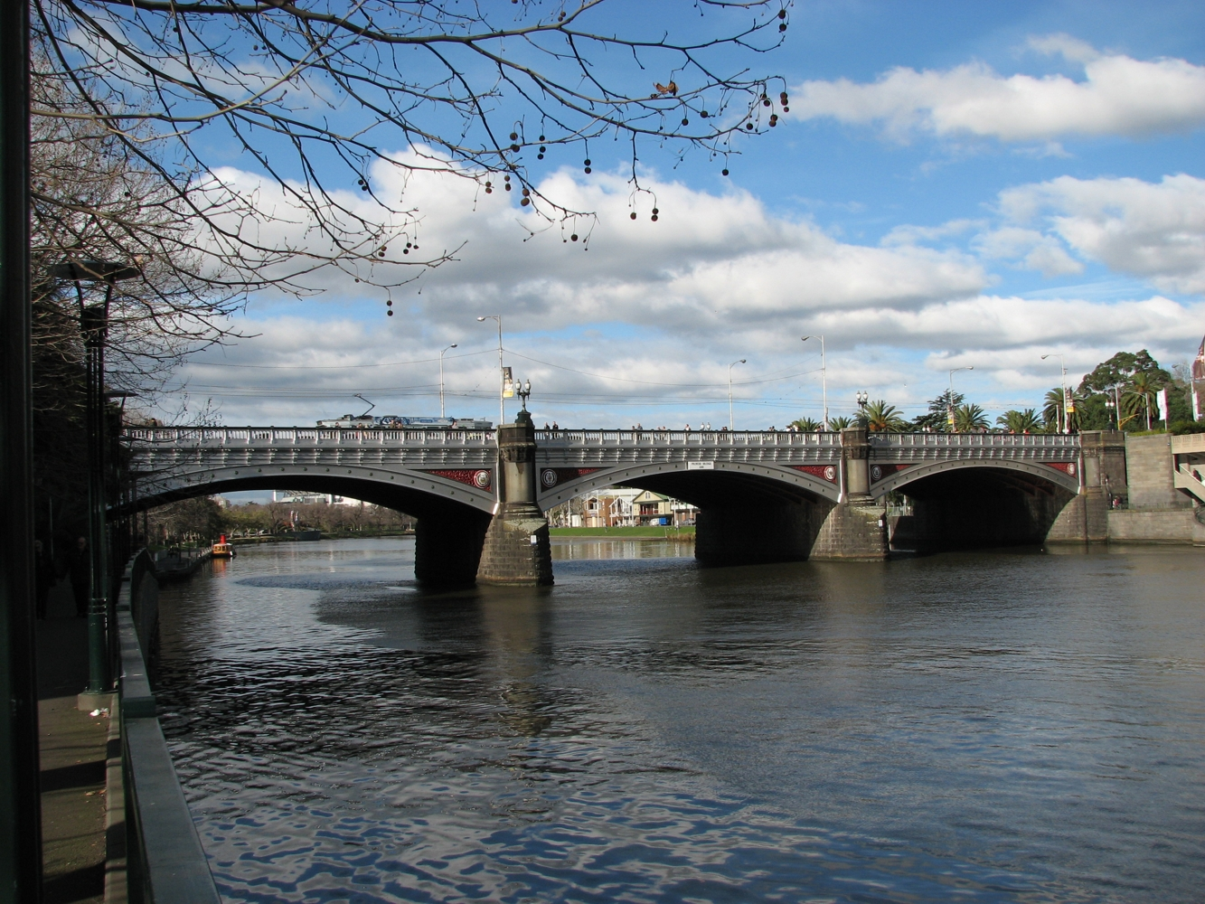 Princes Bridge over the Yarra River, Melbourne, Australia.